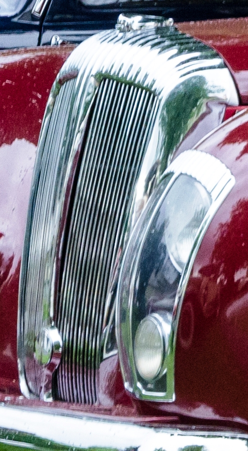 Crop of File:Daimler DE 36 "Green Goddess", Hooper limousine (1949) 8853058256.jpg showing fluting on the radiator grille and the similar fluting on the top of the light bezel